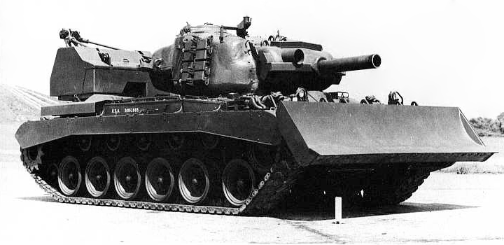 Engineer Armored Vehicle T39 prototype at Aberdeen Proving Ground